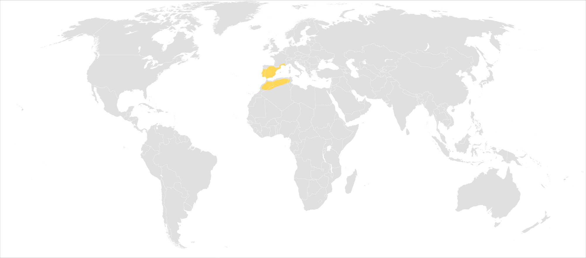 Approximate distribution of Satyrium esculi. Based on Tolman's guide map (2011)